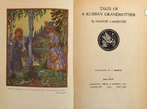 Bilibin, Ivan. Carpenter, Frances TALES OF A RUSSIAN GRANDMOTHER Garden City: Doubleday, Doran & Co., 1933